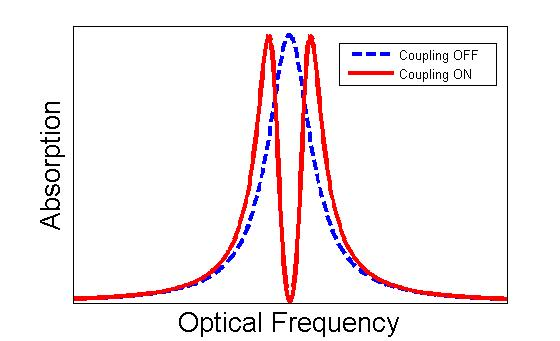 Typical absorption line before (blue) and after (red) EIT is induced by a second coupling field.